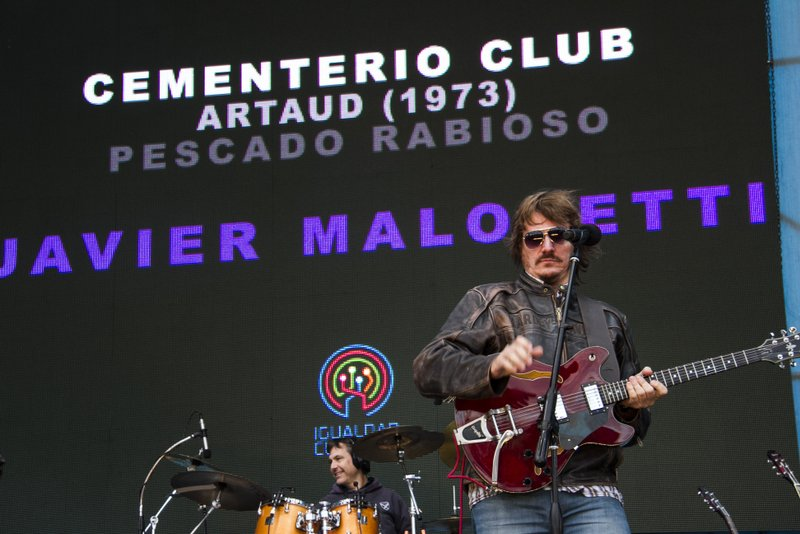 Javier Maloseti, Argentinean rock musician at "Spinetta y el lenguaje del cielo”, Tecnópolis, Argentina, April 12th 2014